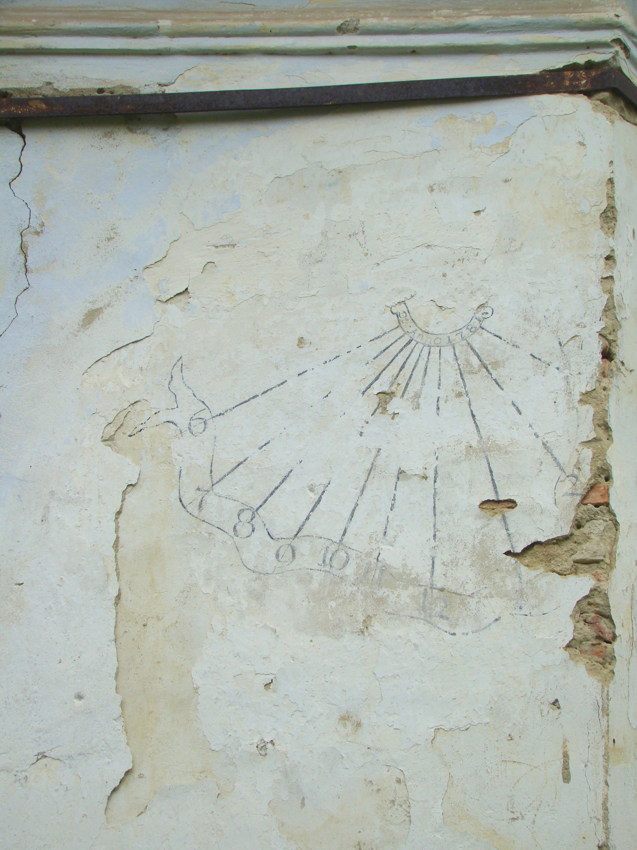 Lutheran church in Vulcan, Mureș county, Romania